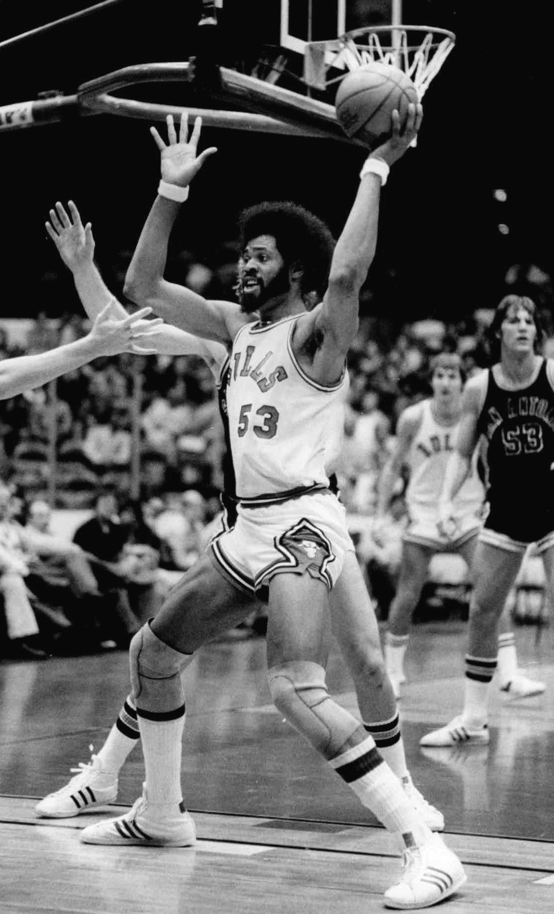 Professional basketball player Artis Gilmore